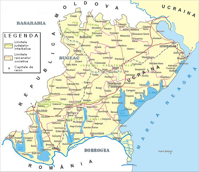 Map of Budjak